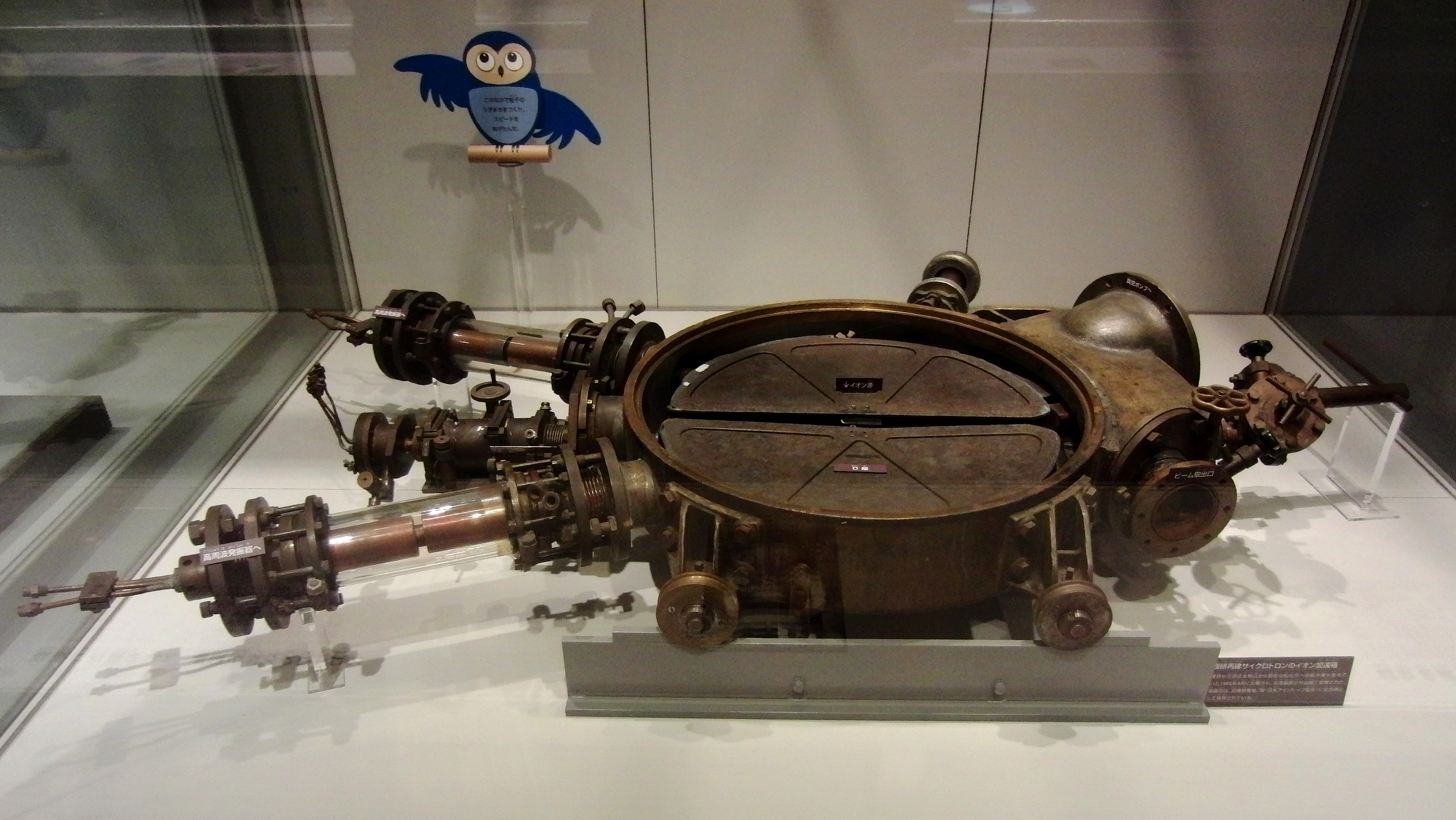 RIKEN's rebuilt cyclotron accelerator. Exhibit in the National Museum of Nature and Science, Tokyo, Japan.